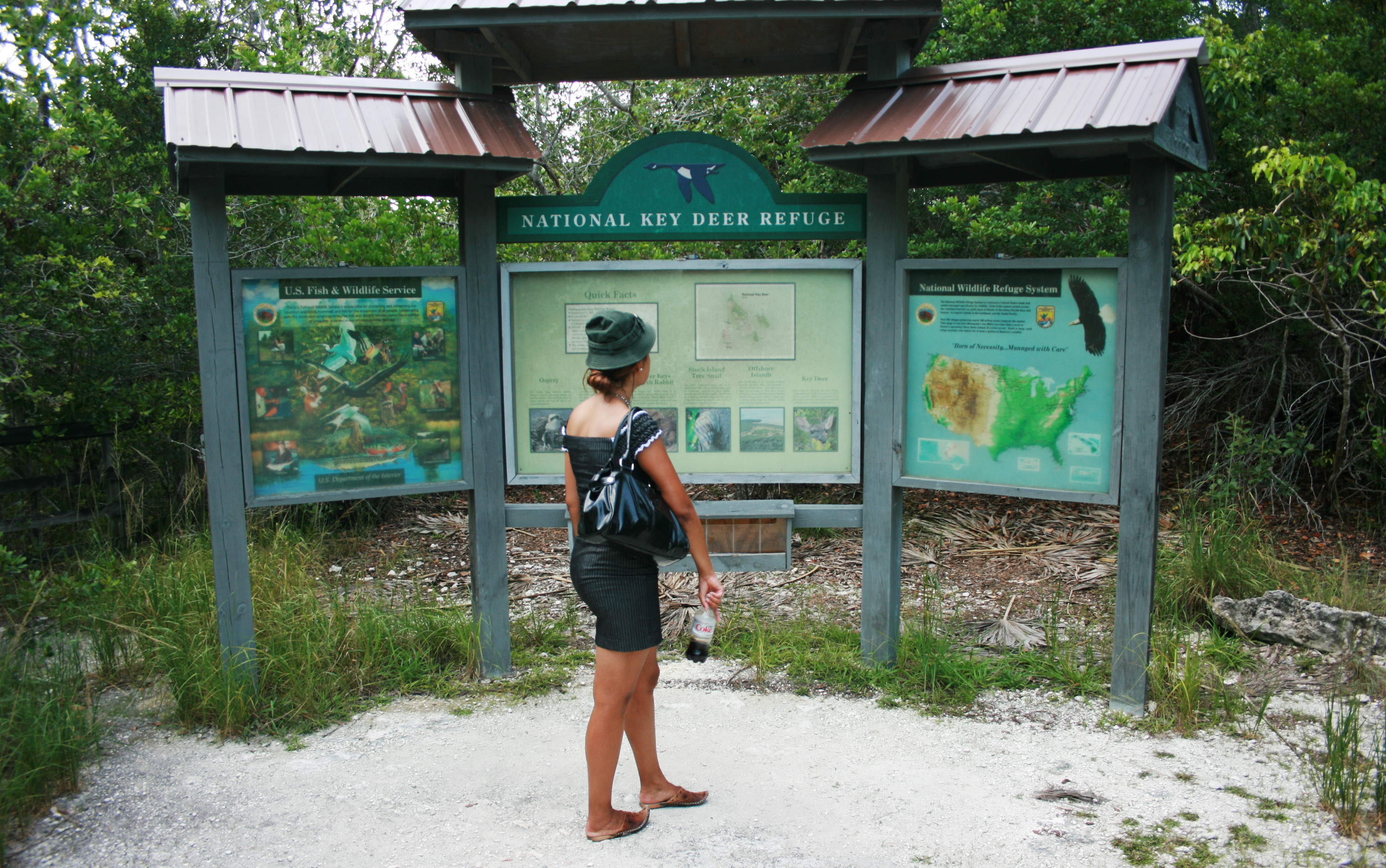 A tourist near Blue Hole in National Key Deer Refuge, Big Pine Key, Florida.